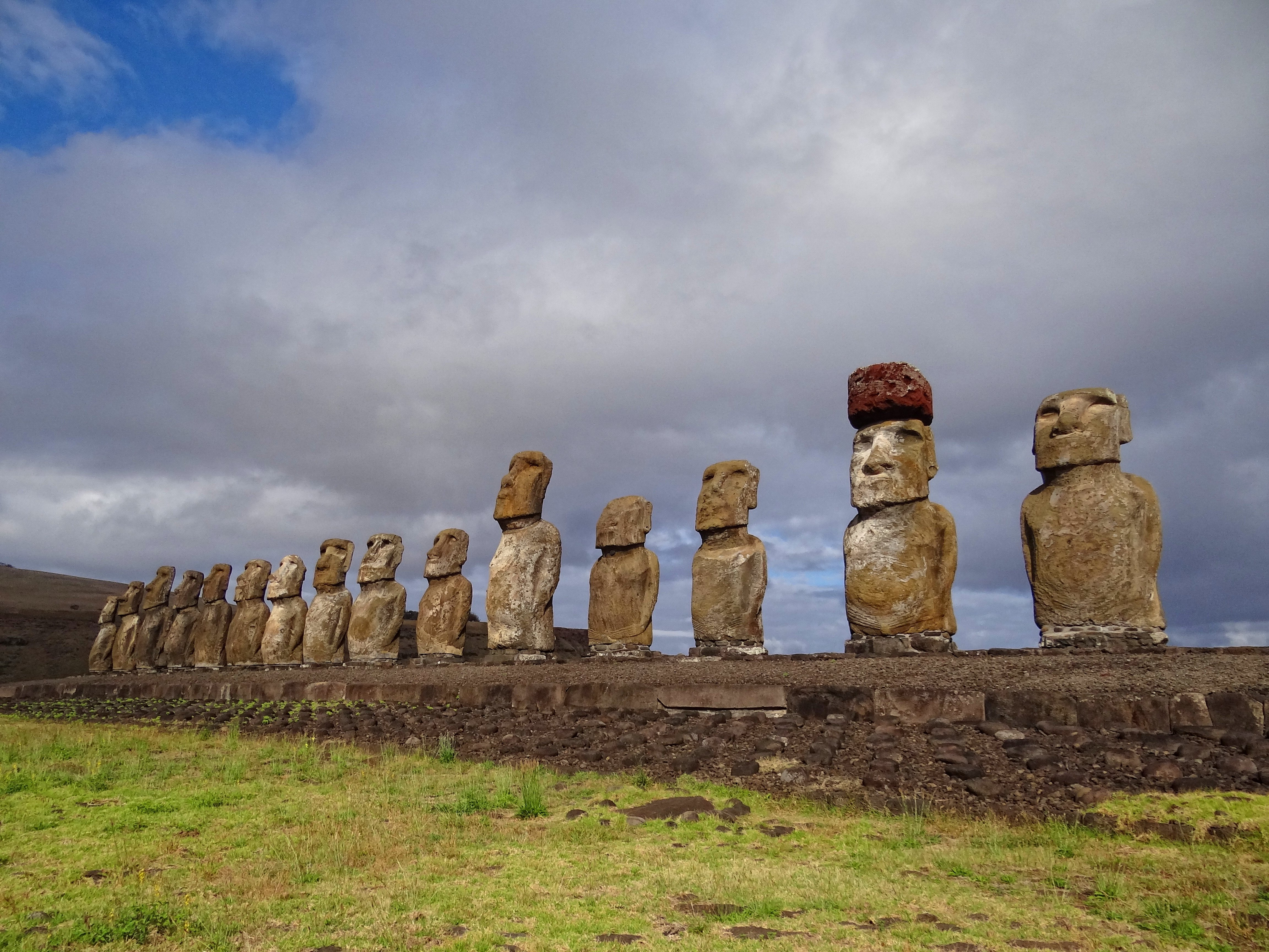 The moai at Ahu Tongariki lined up from the south. It's a rowdy bunch. Only one of them wears a "hat"/pukao, and the tallest one is the largest moai ever to stand. It weighs 86 tonnes, which is about half a Jumbo Jet. Even with a modern crane it is a challenge to get that much weight to stand.